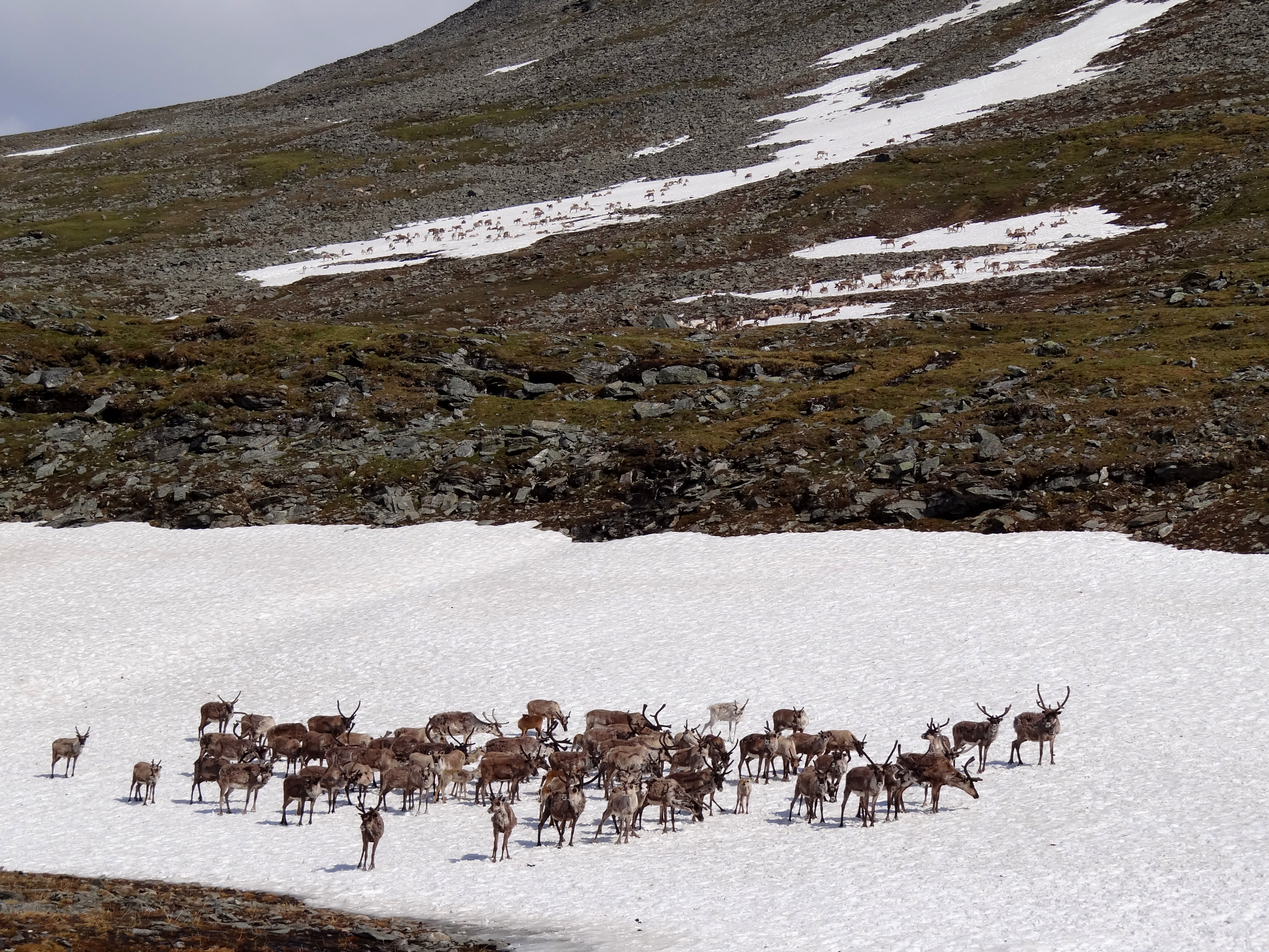 Numerous reindeer standing on patches of snow during summer to avoid blood-sucking mosquitoes and gadflies.